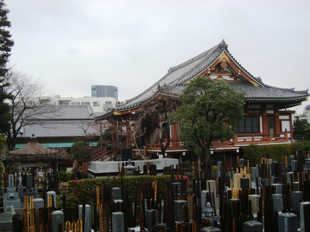 Myoenji temple at Harajuku, Tokyo (Jingu-mae 3, Shibuya city)